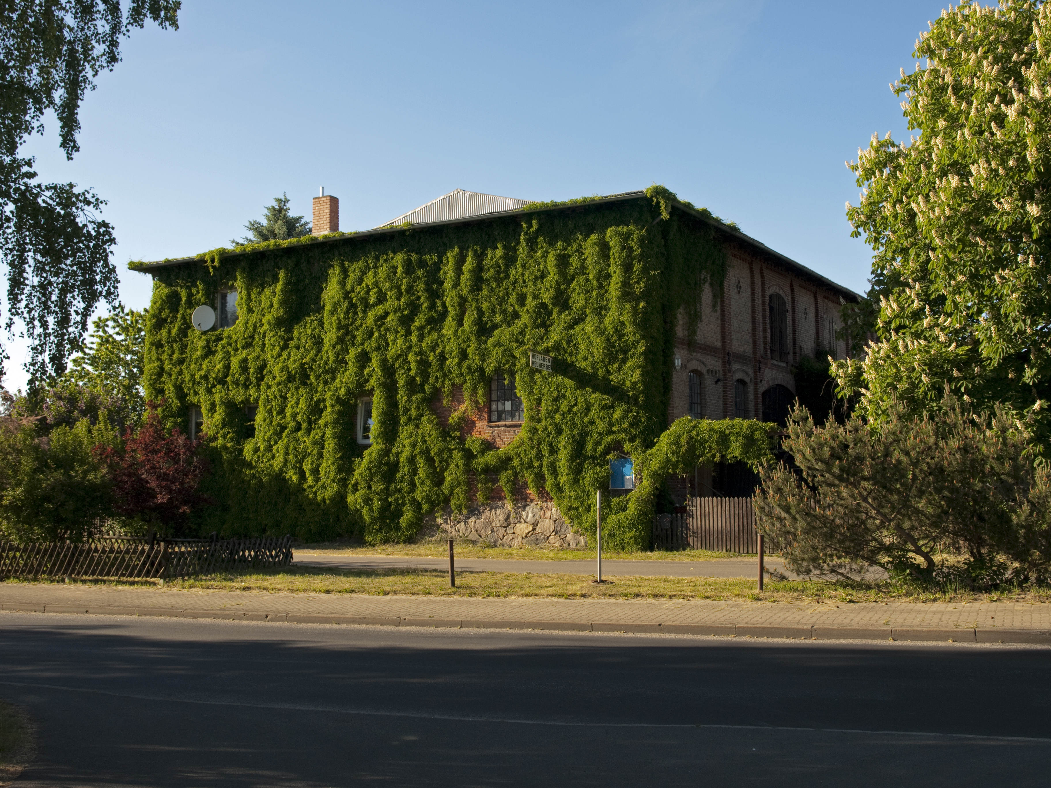 Buetzower Strasse 3, Gross Schwiesow